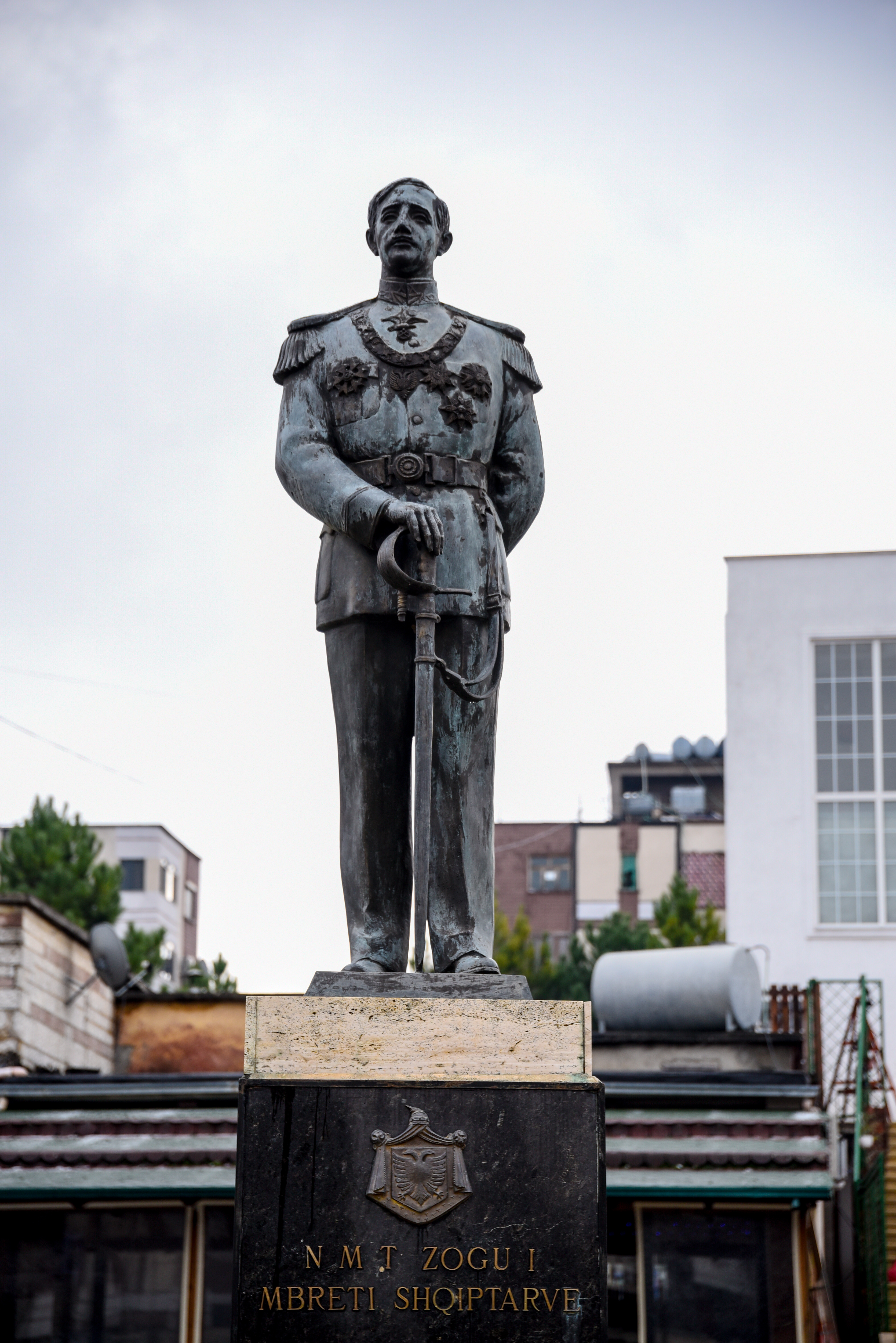 The Monument of Zog I of Albania located in the center of Burrel city in Albania.